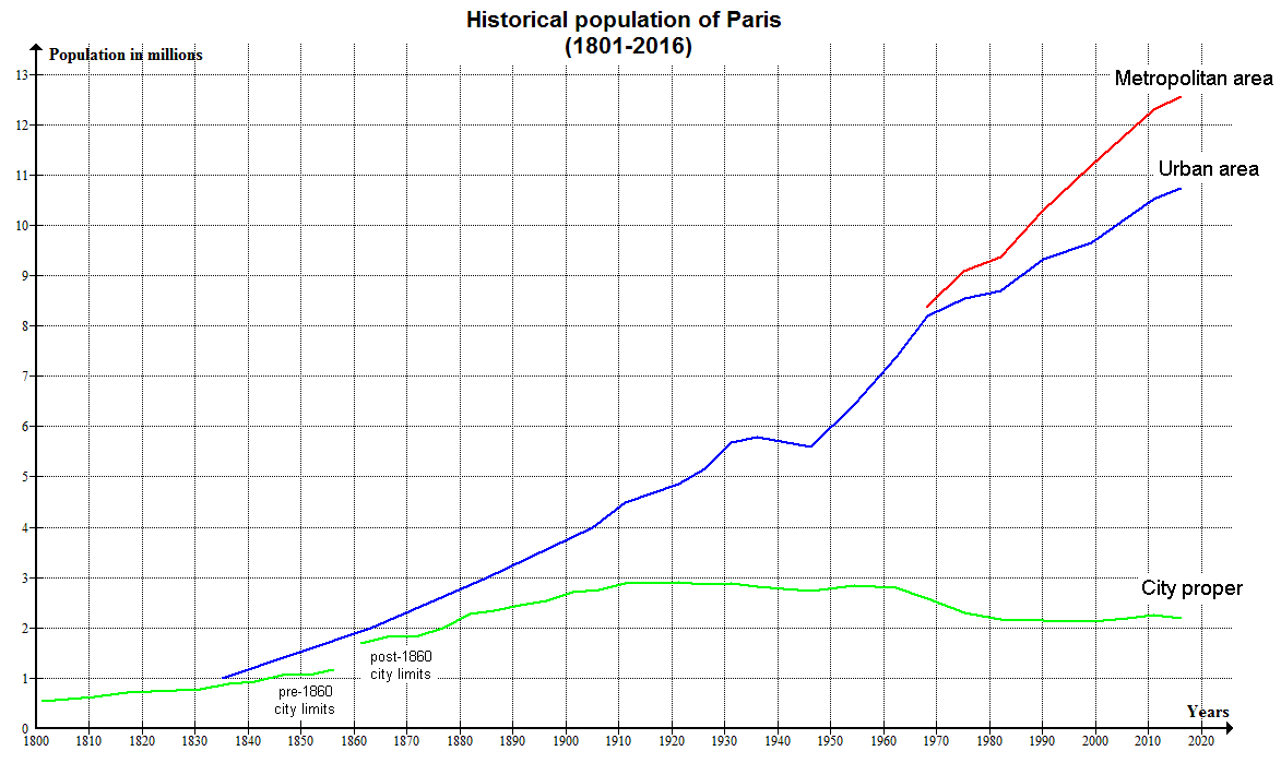 Historical populations of the city, urban area, and metropolitan area of Paris from 1801 to 2008.